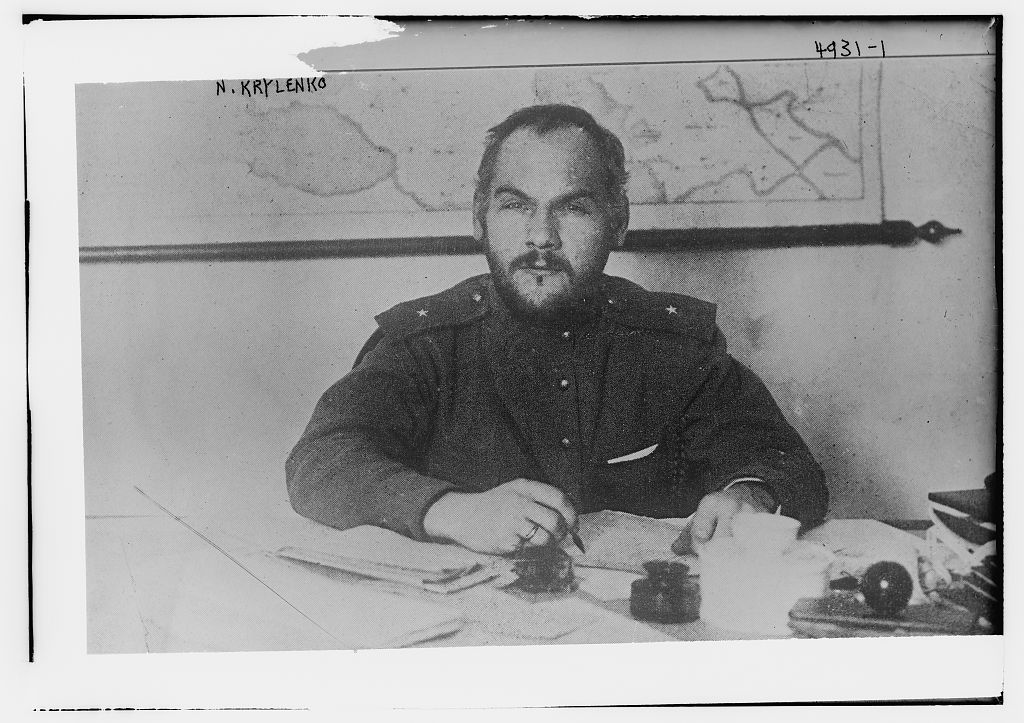 Nikolai Krylenko in 1918